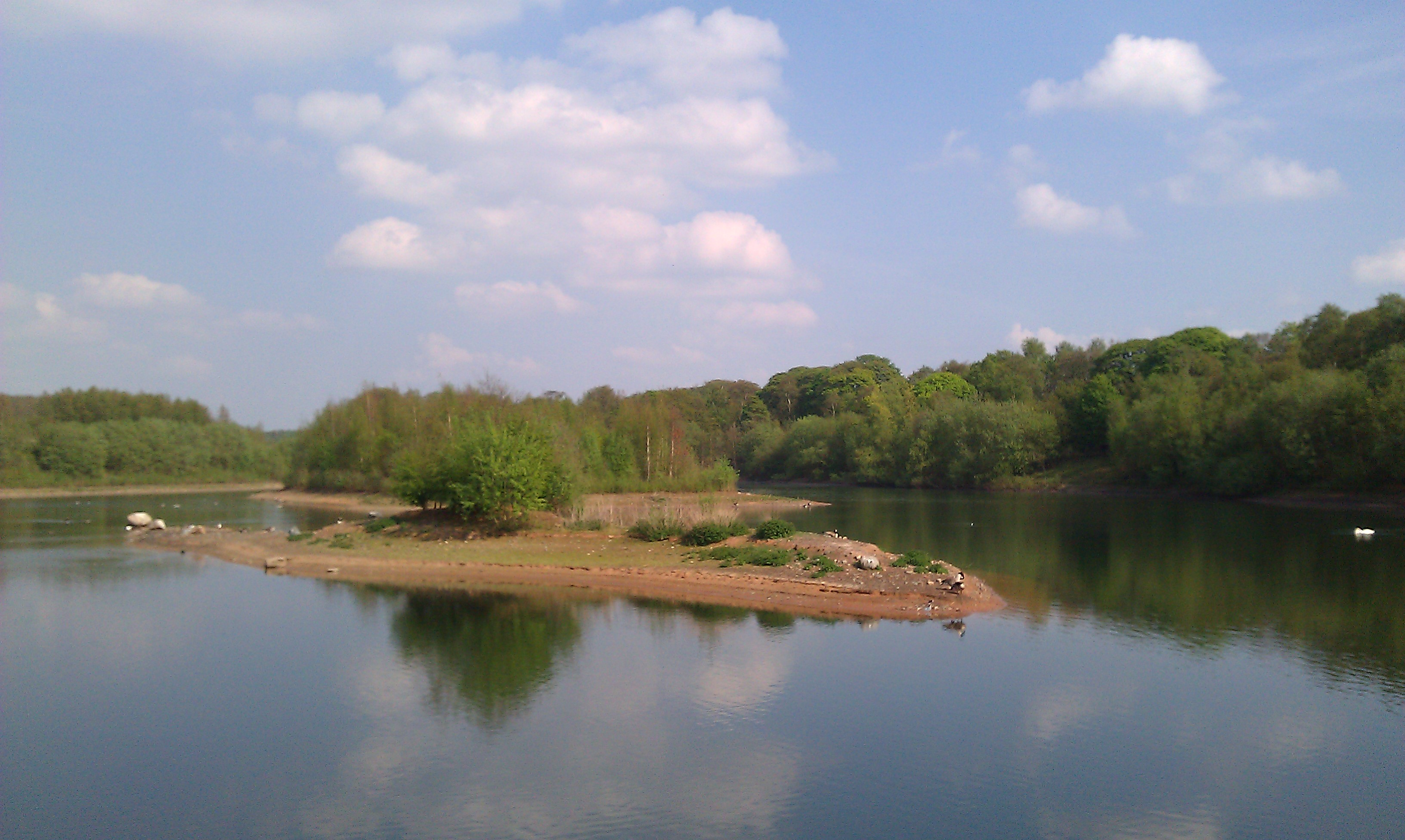 The lake at Moore Nature Reserve, Warrington, England.